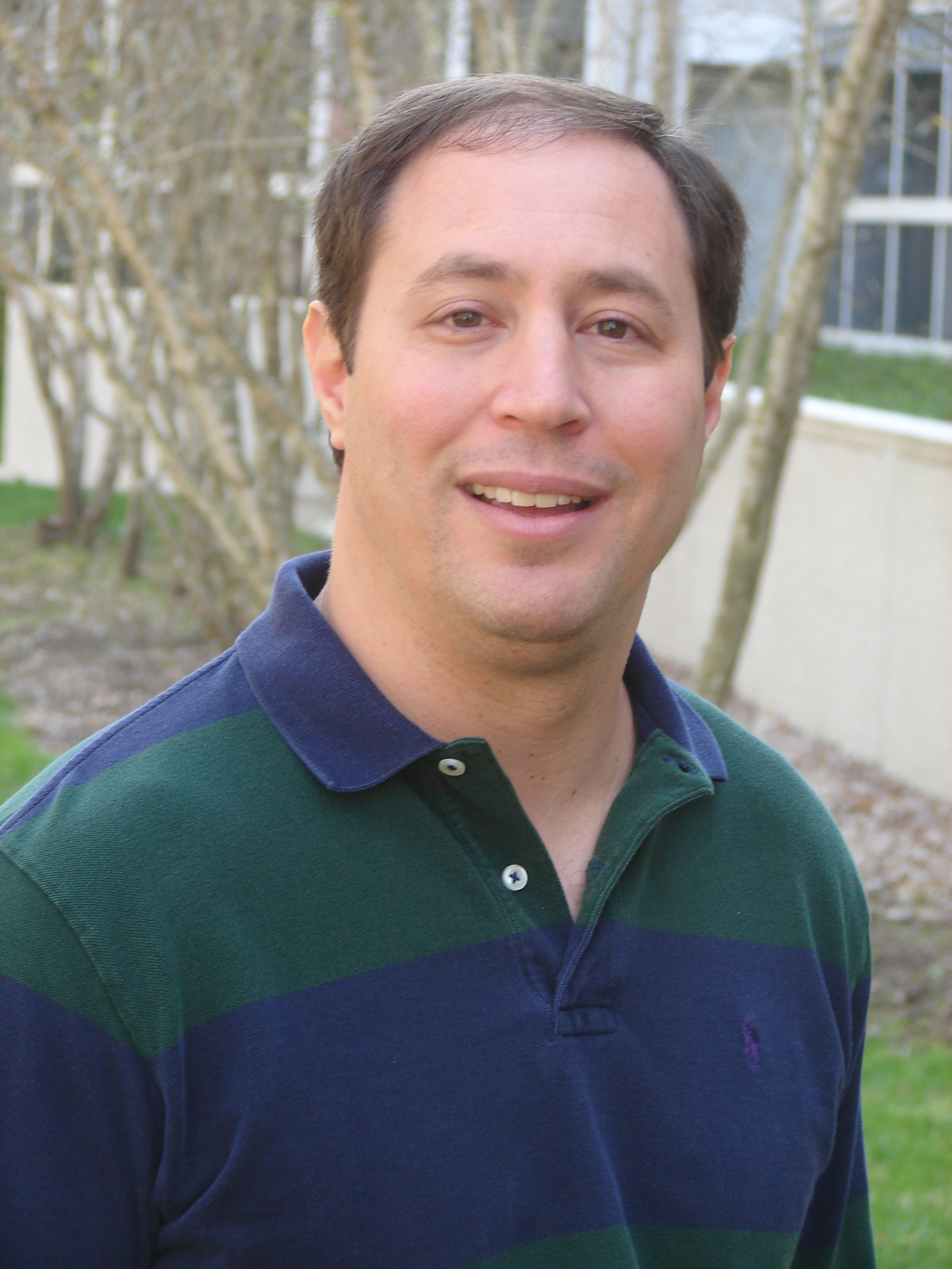 photo of Brad Topol